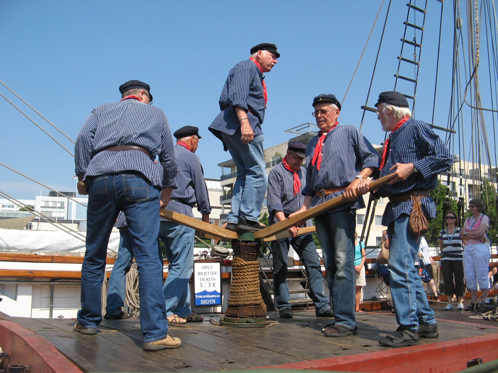 Sea shanty choir Rolling Home of Åland från Åland demonstrating the original use of shanties aboard Sigyn. The shanty man is standing in the middle. A capstan has been moved to where the performance is easier to see.